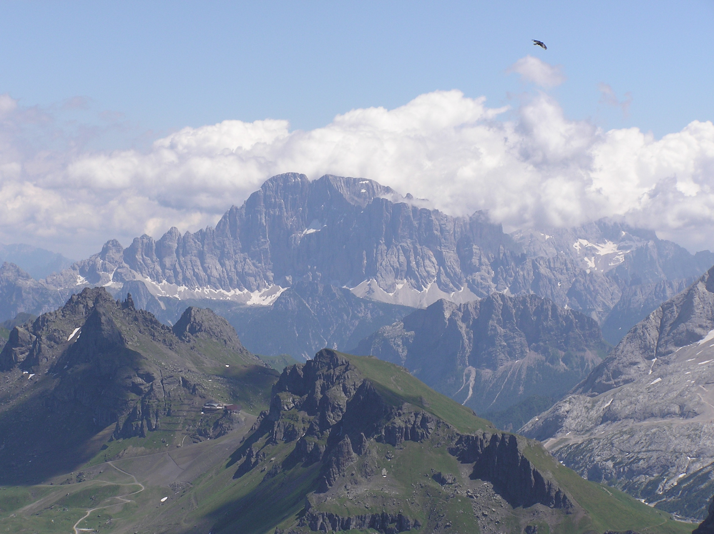 The Monte Civetta, in the southern Dolomites, Belluno province, Veneto, Italy. Photo taken from Piz Boé (Sella Group). In the foreground: the Padon Ridge, on the far right: the north hang of the Marmolada